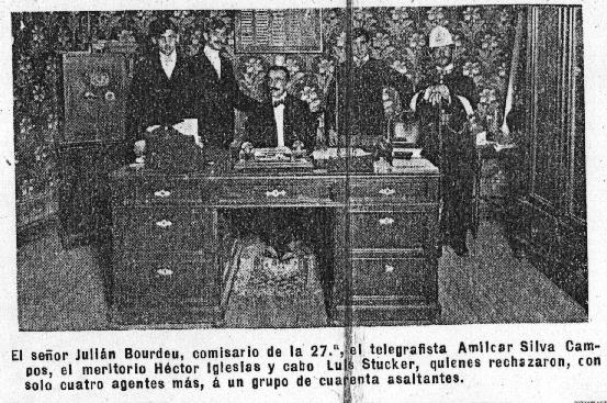 Commissary Julián Bourdeu of the Policía de la Capital (Buenos Aires, Argentina) and part of the staff of the 27th precinct, days after the Radical Party revolution, a photo published by the argentinian magazine Caras y Caretas for its issue of February 11, 1905. The spanish text reads: "Mr. Julián Bourdeu, commissary of the 27th, telegraphist Amílcar Silva Campos, learner Héctor Iglesias and corporal Héctor Stucker, with just four agents more, repelled a group of forty assailants"